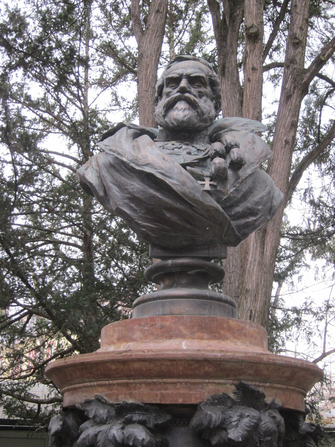 Siebold bust at Würzburg (D)